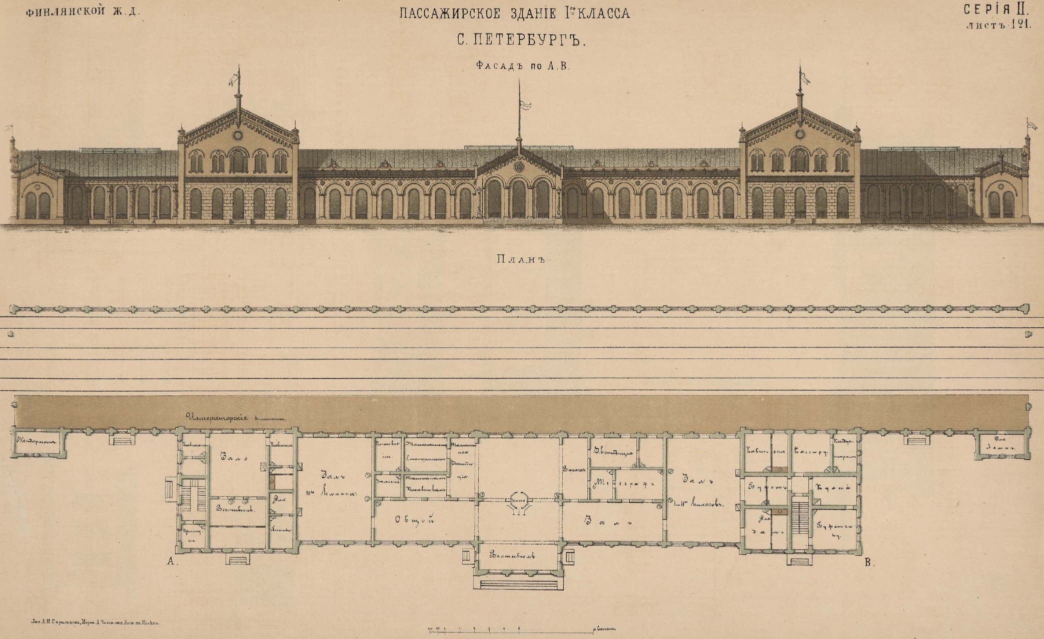 Saint Petersburg station. Riihimaki–Saint Petersburg railway. Russian Empire